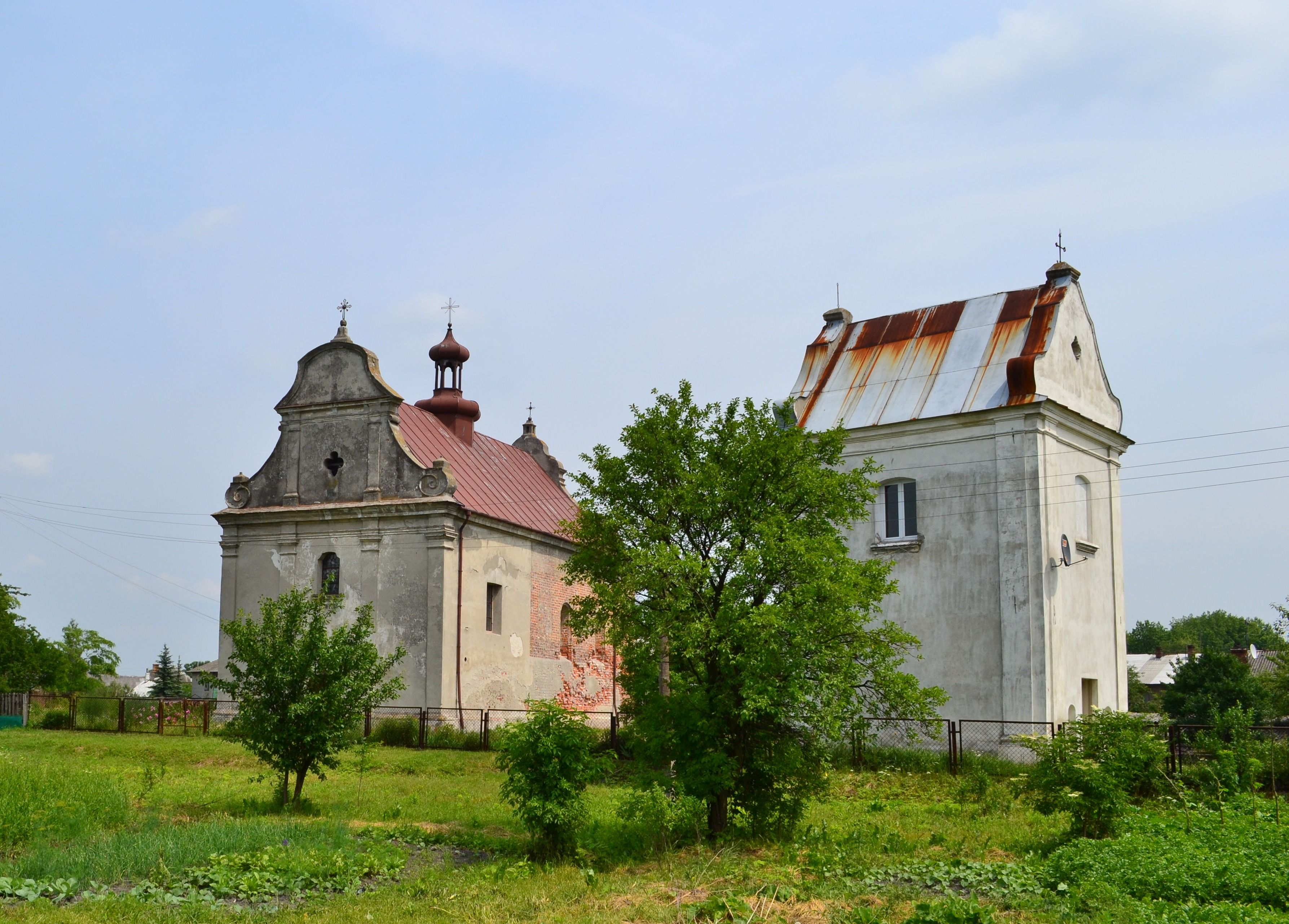 Church of the Holy Trinity in Lyuboml with bell tower